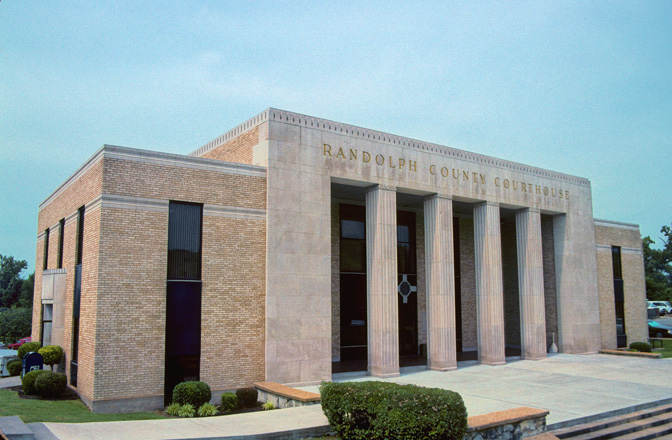 Front of the Randolph County Courthouse, located on the southwestern corner of the intersection of Broadway and N. Marr Streets in Pocahontas, Arkansas, United States. Built in 1940, it is listed on the National Register of Historic Places.